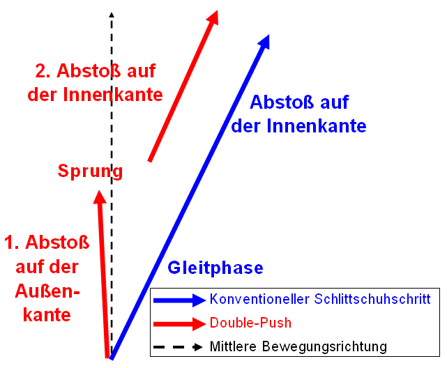 Schematic illustration of two phases of double-push technique for skating in cross country skiing. Only track of right ski is shown for conventional skate and double push.